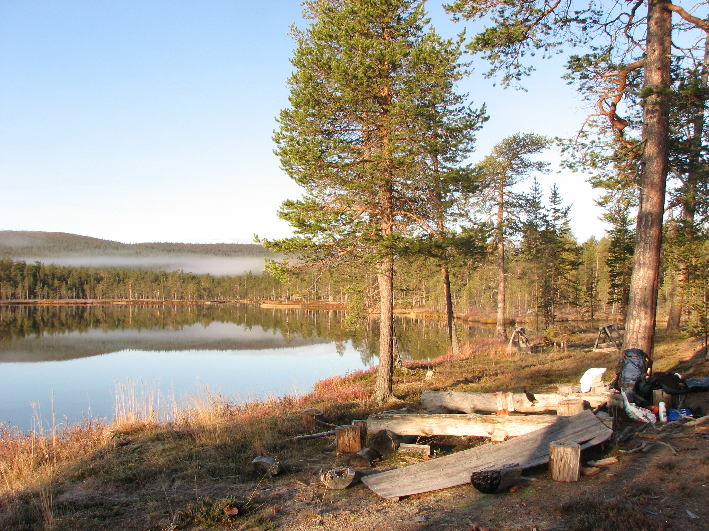 A below-zero-degrees September morning in Harrijärvi, Urho Kekkonen National Park, Finland. The nearby swamp froze during the night.